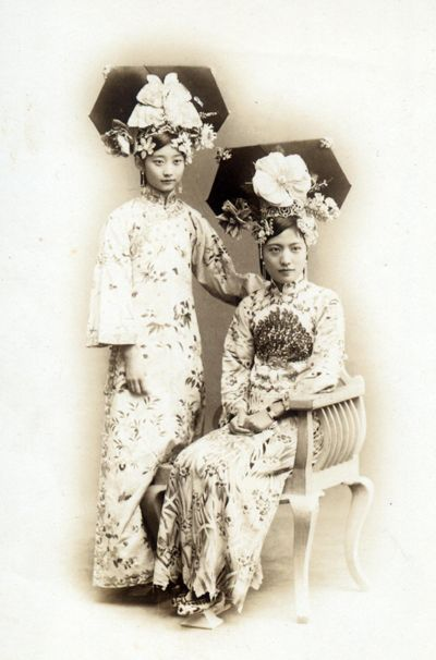 Manchu noble ladies in 1900s